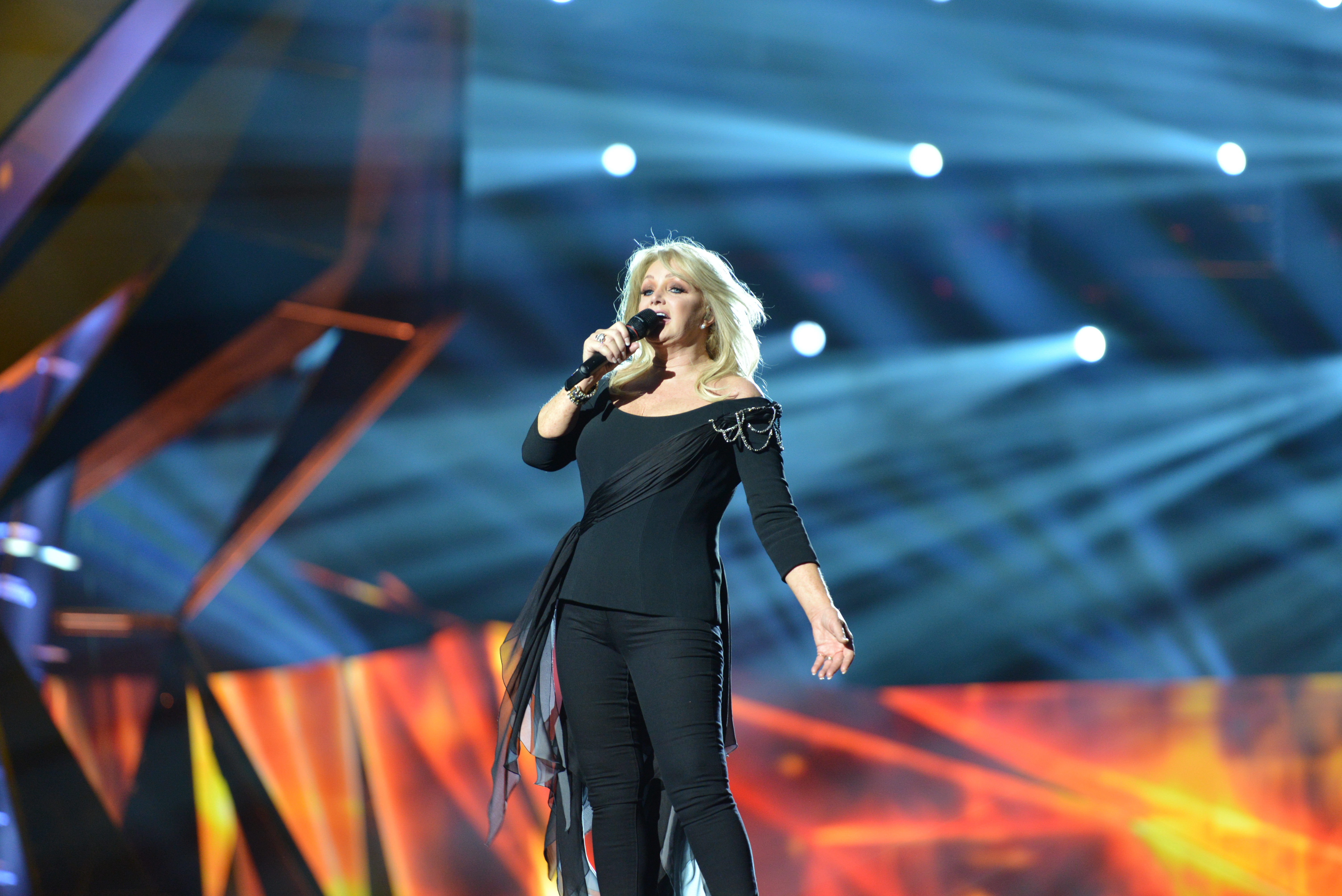 Bonnie Tyler representing United Kingdom with the song "Believe in Me" during the first dress rehearsal for "the Big Five" in the Eurovision Song Contest 2013 in Malmö. (Help translate this text)